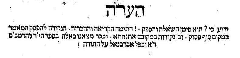 Punctuation - an explanation in the journal "Kohelet Musar" (Moses Mendelssohn & Tuvia Book, 1755)